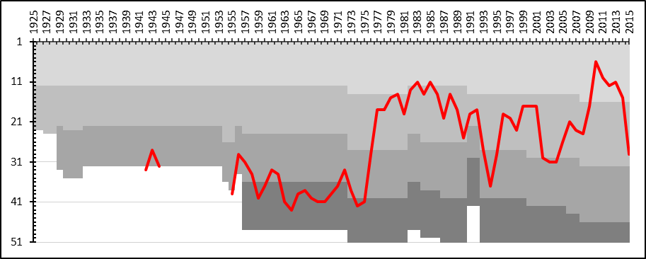 A chart showing the progress of Mjällby AIF through the swedish football league system. The different shades of gray represent league divisions.